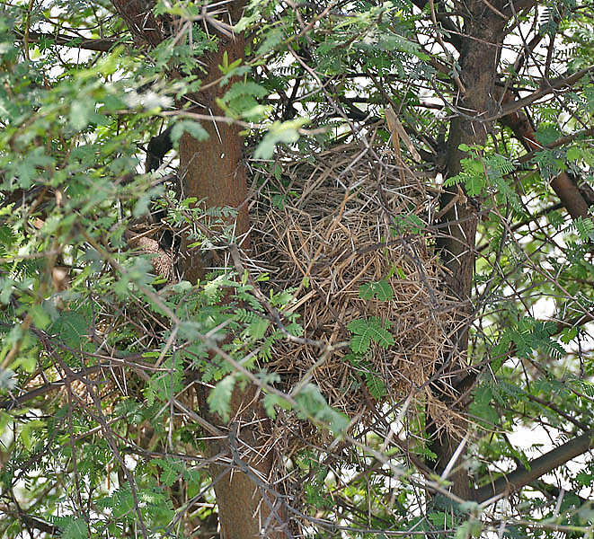 Sind Sparrow Passer pyrrhonotus at Sultanpur National Park in Gurgaon District of Haryana, India.